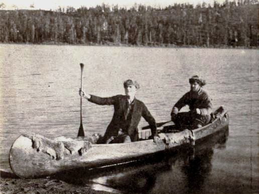 Still from the American drama film The Right of Way (1920) with Bert Lytell, on page 62 of the January 17, 1920 Exhibitors Herald.